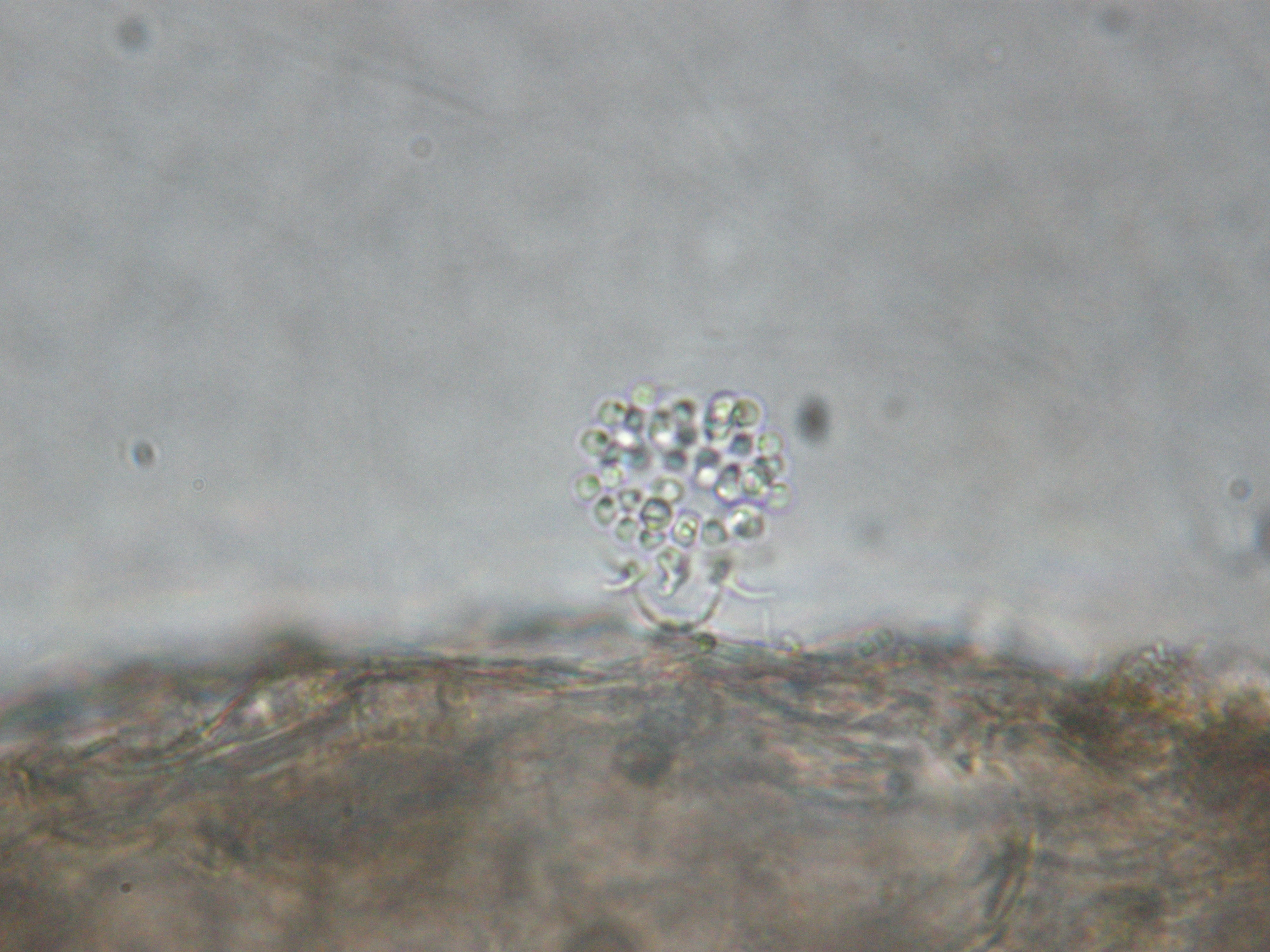 Zoospore discharge from Phylctochytrium sp. that was growing on a dead frond of duckweed collected from Garden Pond, Bath Nature Preserve, Summit County, Ohio.